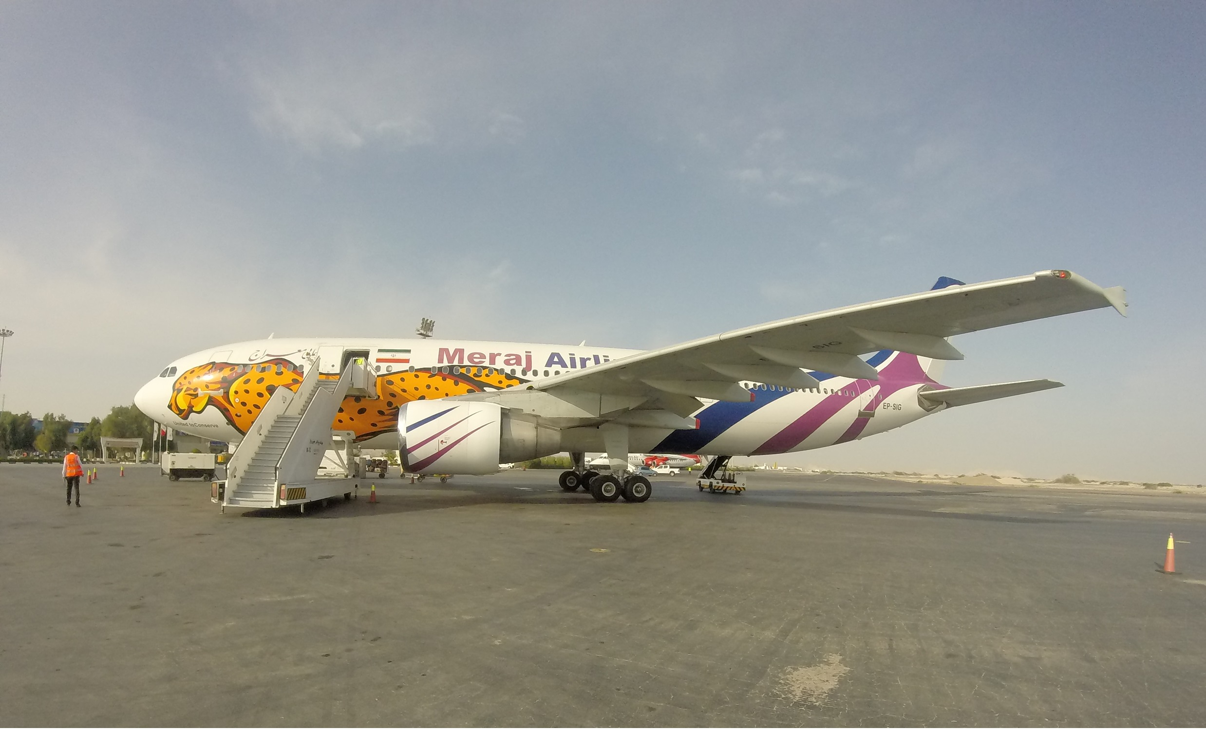 MerajAirlinesAirbus306PersianCheetah